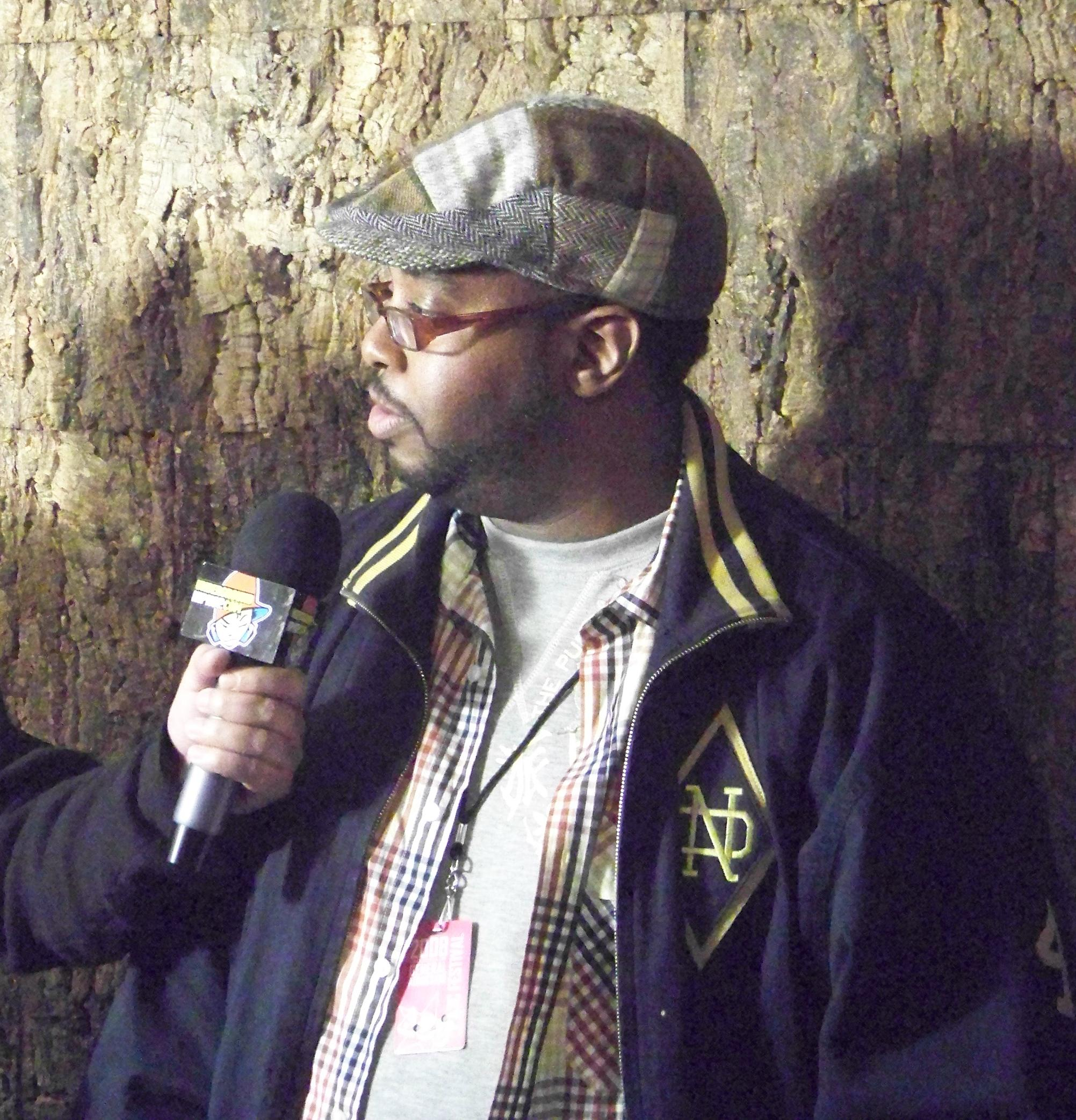 Rapper J-Live, cropped from original image.